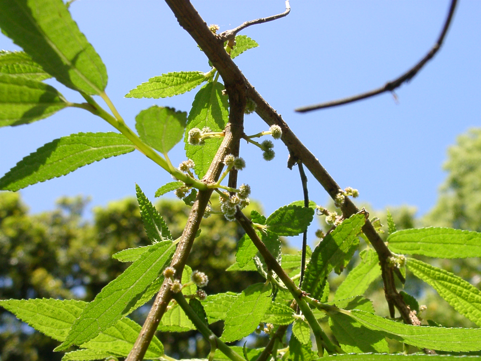 Debregeasia edulis 's female flower. at Manazuru-machi, Japan.